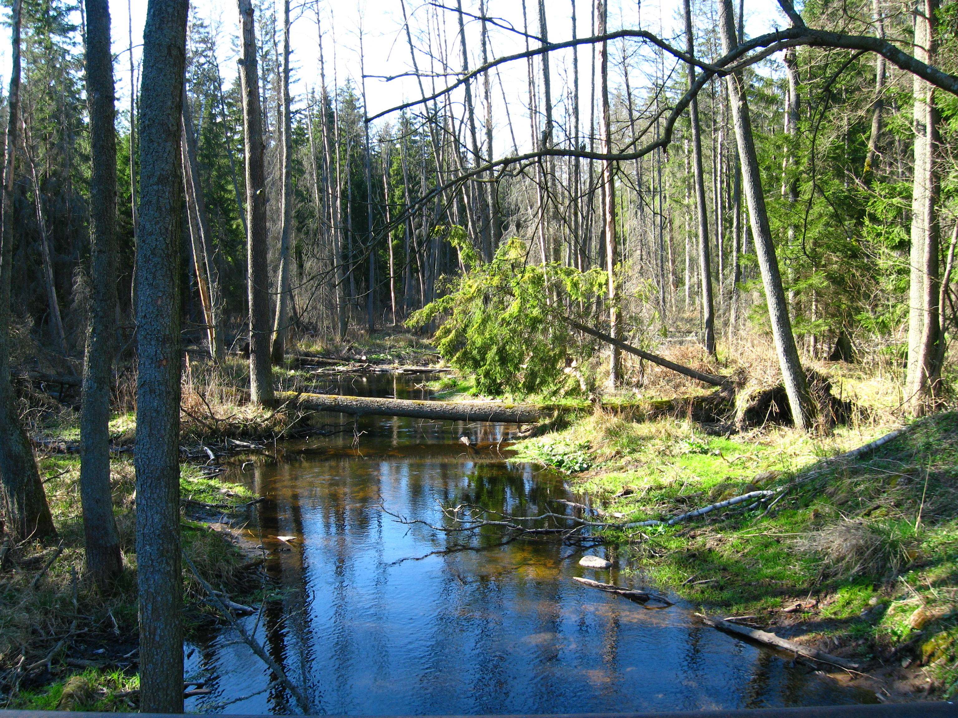 Świnobródka river near Stanek